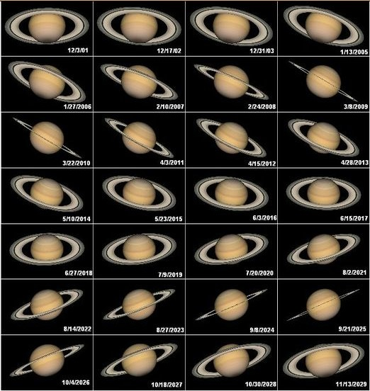 This sequence of simulated views demonstrates the 29.5-year orbital period of Saturn by opposition date, as well as the dramatic changes in the orientation of the planet's ring disk. The ring system revolves around a fixed axis, so both sides of the ring disk are visible from Earth during each period in which Saturn orbits the Sun. (Note: If viewed with a parallel view stereo technique, this set of images provides a pretty plastic 3D effect to the viewer.) Reference Meeus, Jean (1988) Astronomical Formulae for Calculators (4th ed.), Willmann-Bell External sources Opposition dates of Saturn: 1950-2099 Saturn flat map: 1800x900 pixel JPG[dead link] Saturn ring maps[dead link] Cool simulated images for Saturn from various views[dead link]